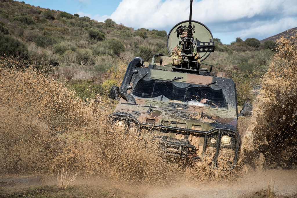 Italian Army - 3rd Bersaglieri Regiment VTLM Lince during an exercise in Sardinia